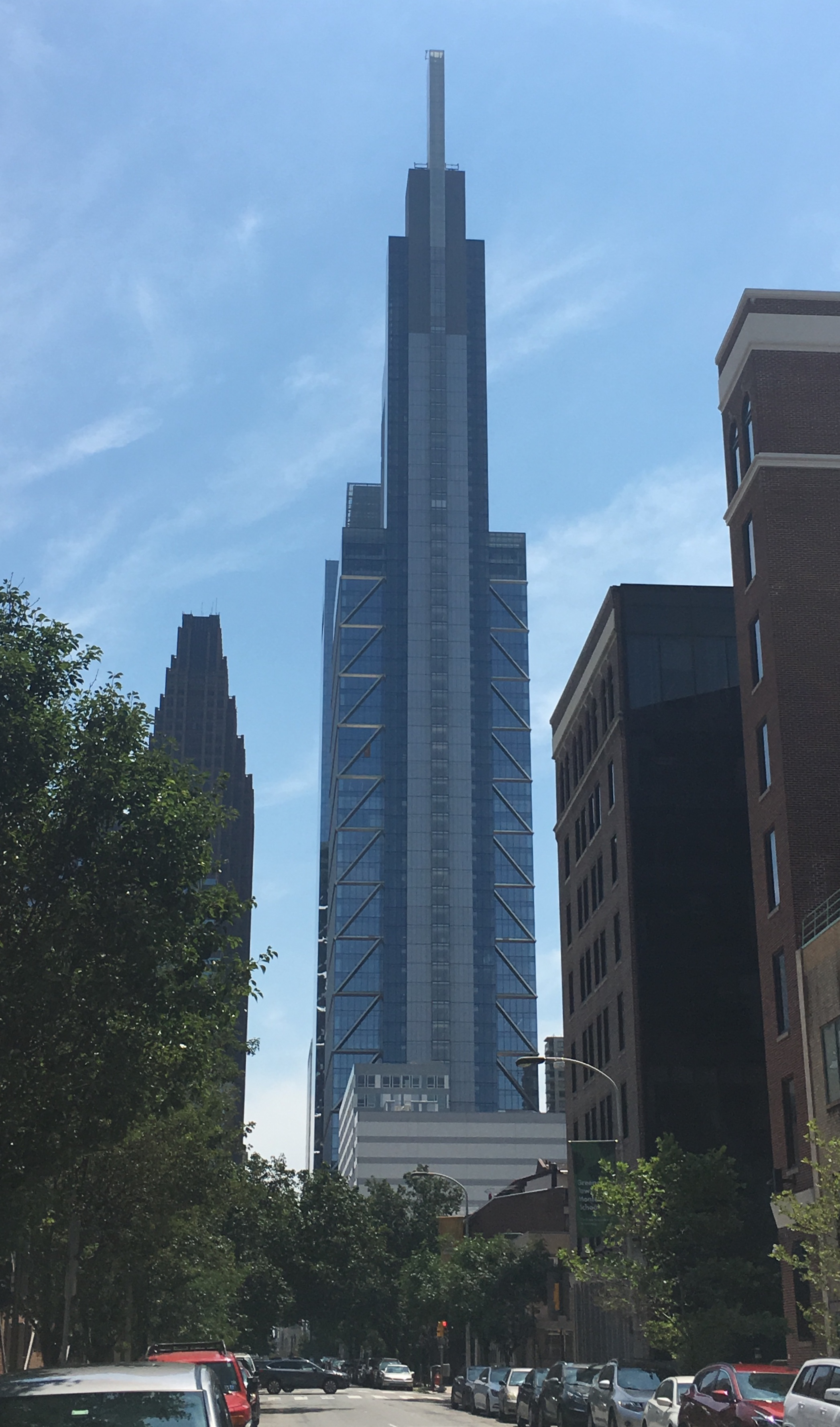 Photo of the Comcast technology center in July 2018